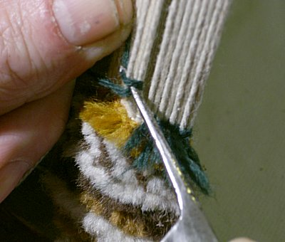 carpet knotting